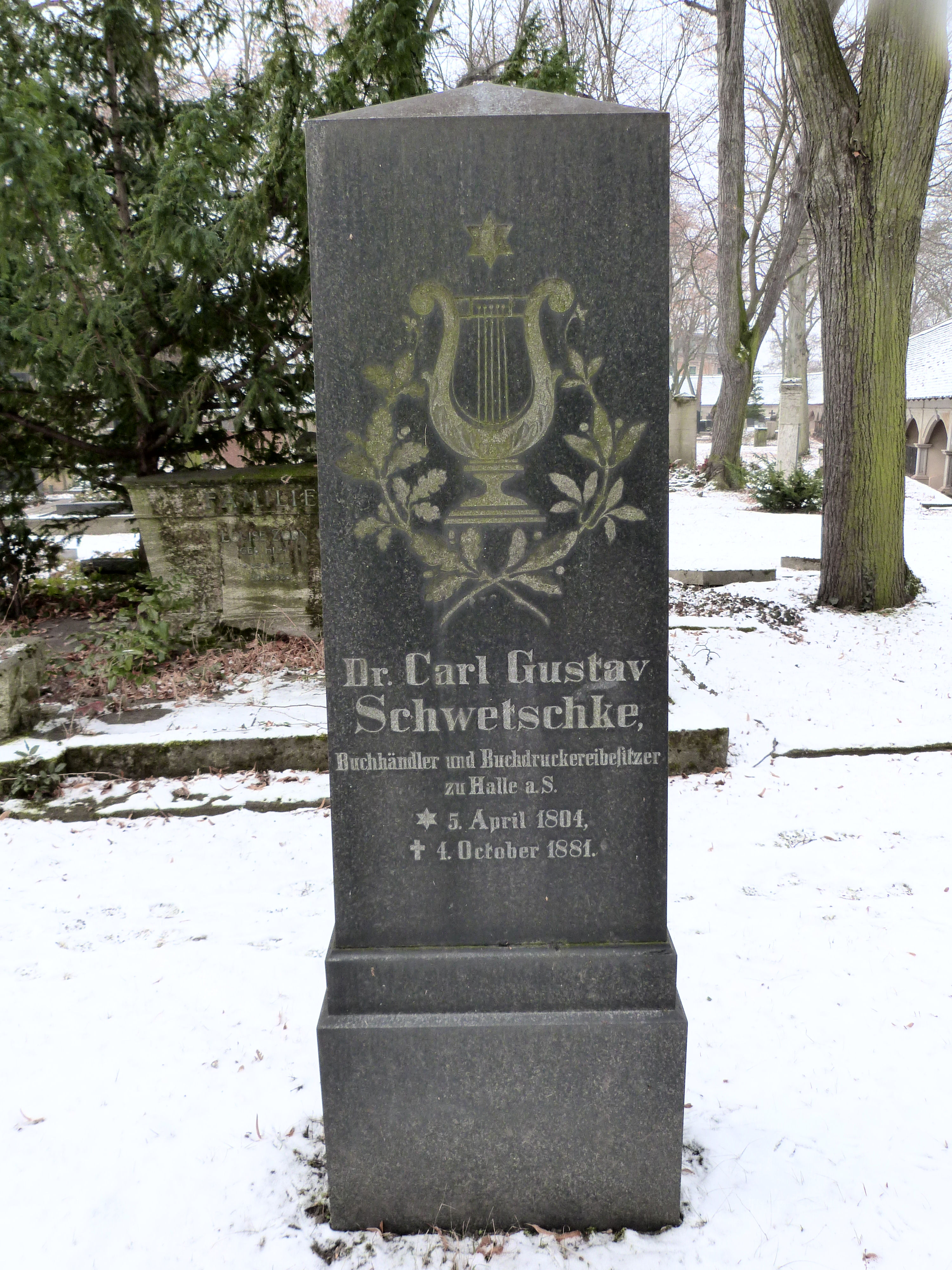 Grave of Carl Gustv Schwetschke, Stadtgottesacker Halle (Saale)